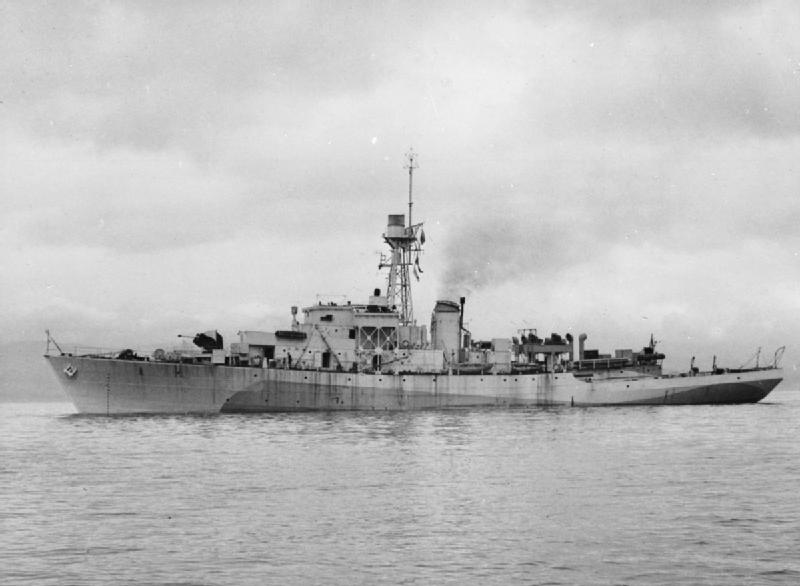 The Royal Navy during the Second World War HMCS TILLSONBURG underway.